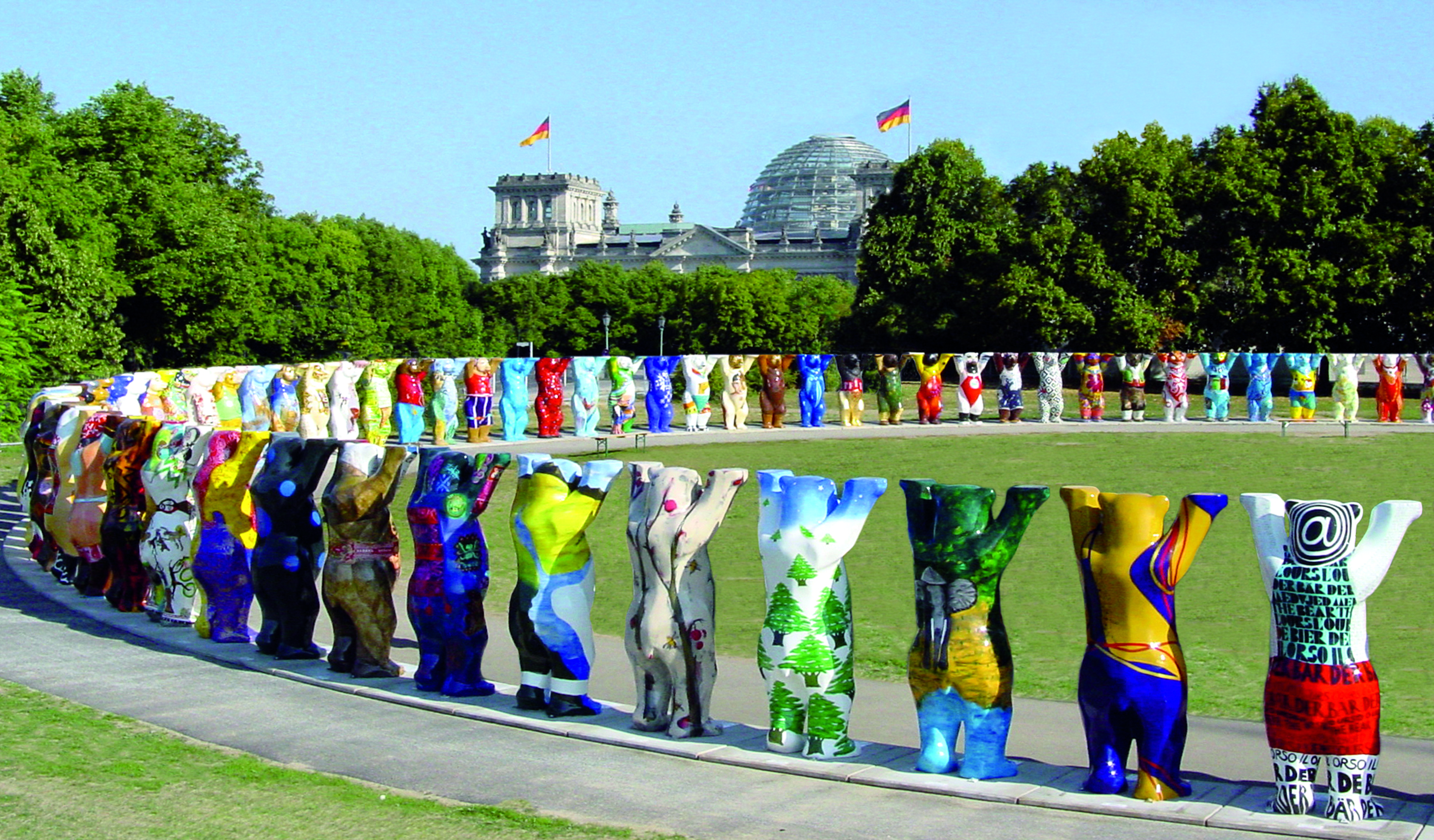 United Buddy Bears at Pariser Platz, Berlin, 2003